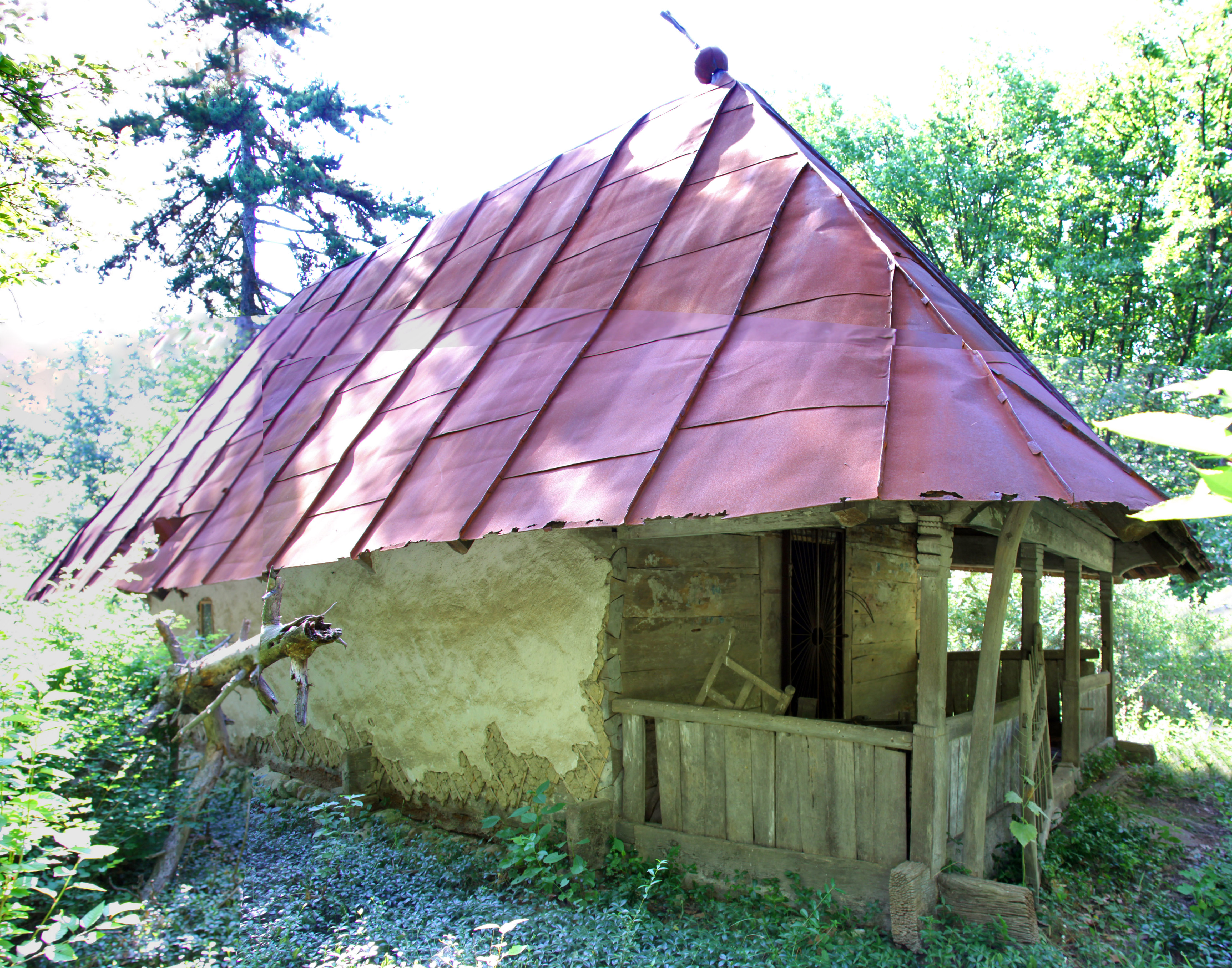 Boia, Gorj: the wooden church. North-West.